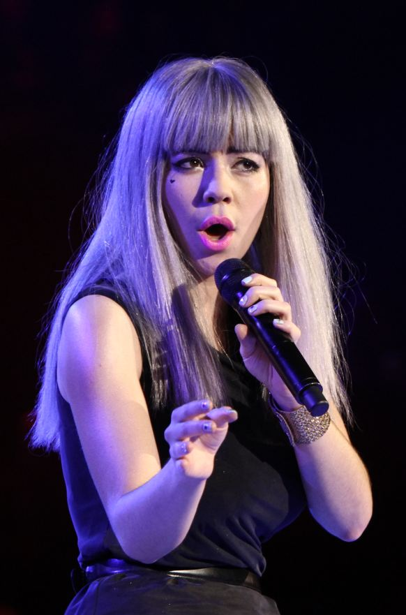 Marina and the Diamonds @ MICHALSKY StyleNite